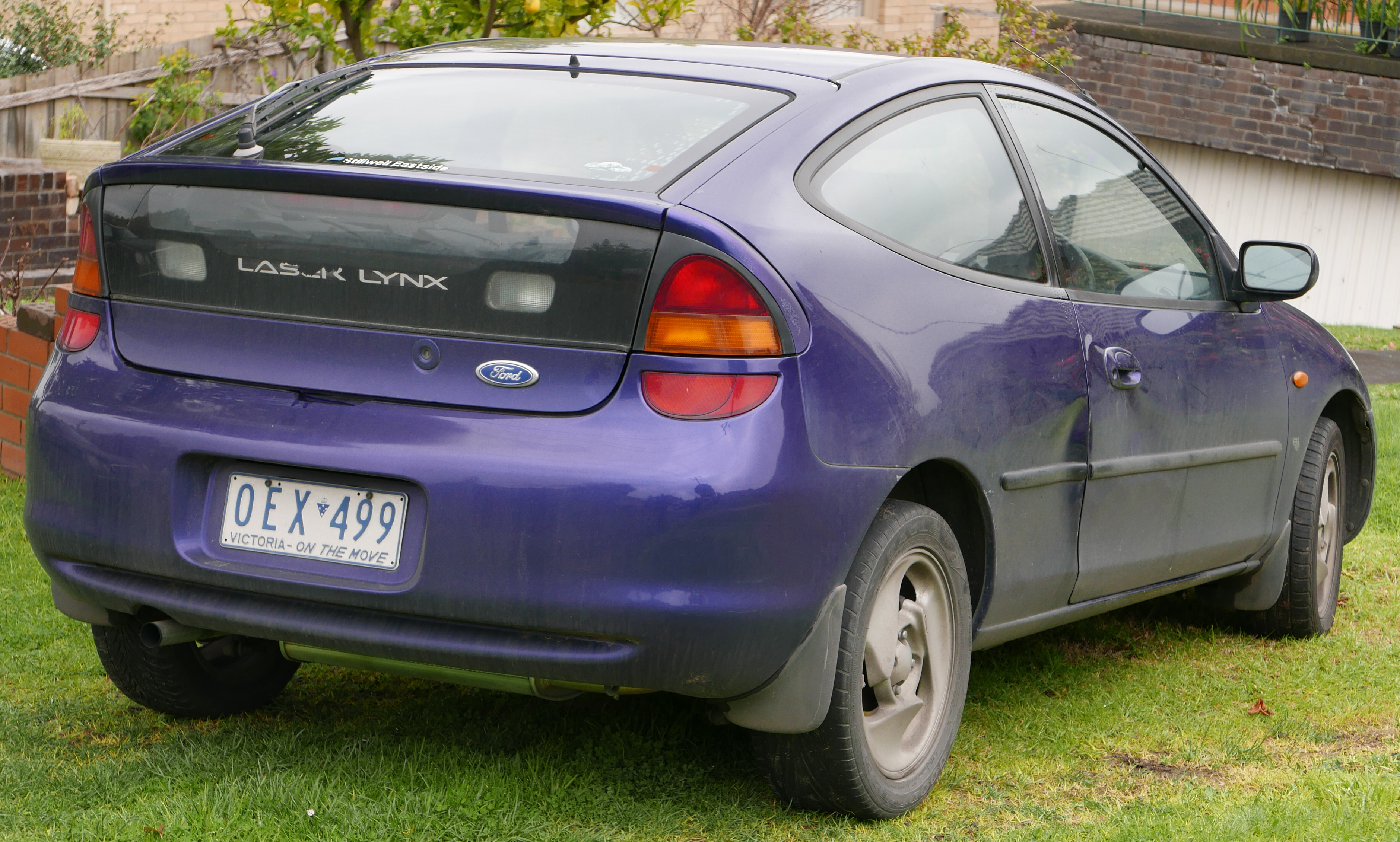 1995 Ford Laser (KJ) Lynx 3-door hatchback. Photographed in Doncaster, Victoria, Australia. Vehicle registration enquiry results Jurisdiction Victoria Registration OEX499 Chassis code JC0AAASGPMSS24694 Engine code BP965033 Compliance date 1995-08 Year of manufacture 1995